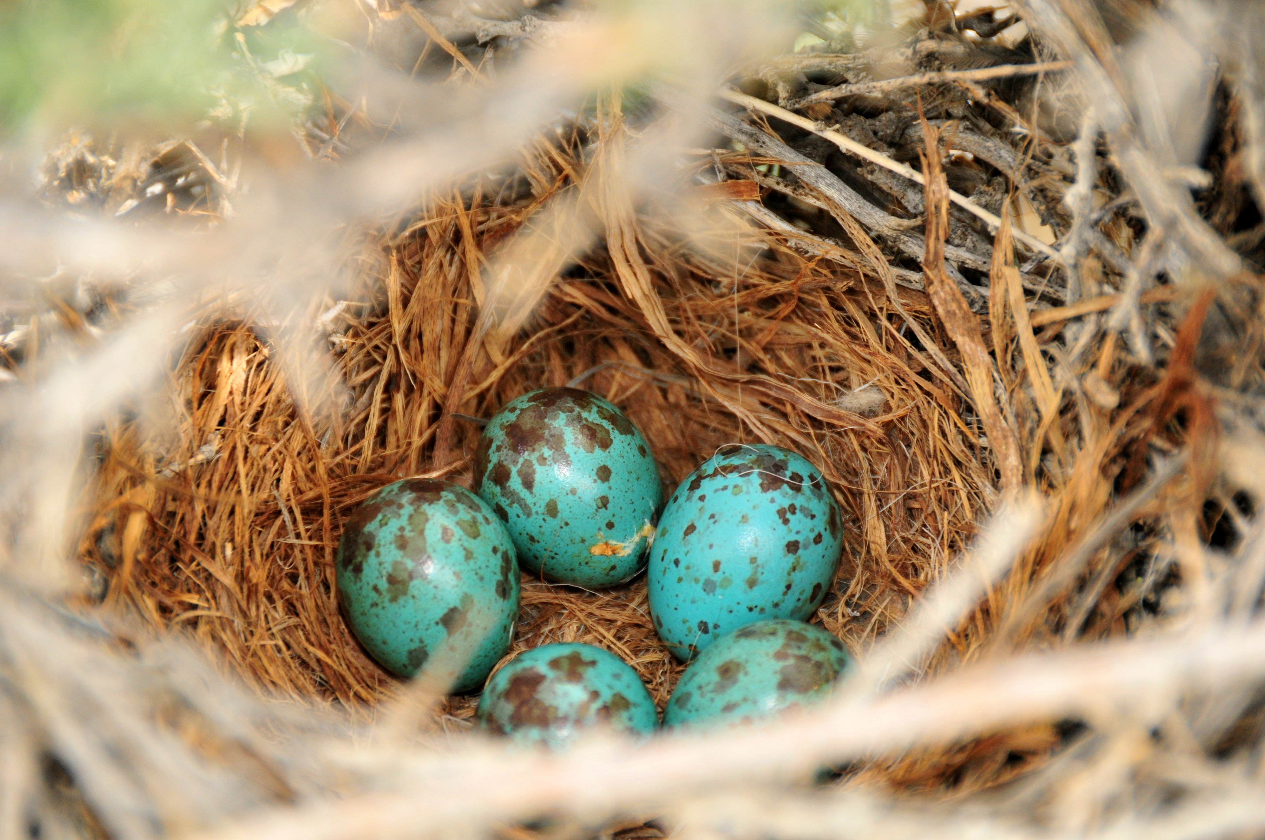 Sage thrashers are commonly observed on Seedskadee National Wildlife Refuge, however, finding a sage thrasher nest is quite rare. They place their nests deep within a large sagebrush where it is very difficult to see. The site is carefully selected to provide overhead shade from the sun, protection from the wind, and concealment from predators. The splotched turquoise eggs contrast sharply with the strips of sagebrush "bark" and grass that line the nest bowl. During breeding season, sage thrashers eat mostly insects, including grasshoppers, caterpillars, ants, and beetles. Sage thrashers are monogamous and both parents help incubate 4-5 eggs for about 12 days, and both feed and brood the young for a week or two after they hatch. The young leave the nest about 10 days after hatching, after which the adults may raise a second brood. Photo: Tom Koerner/USFWS